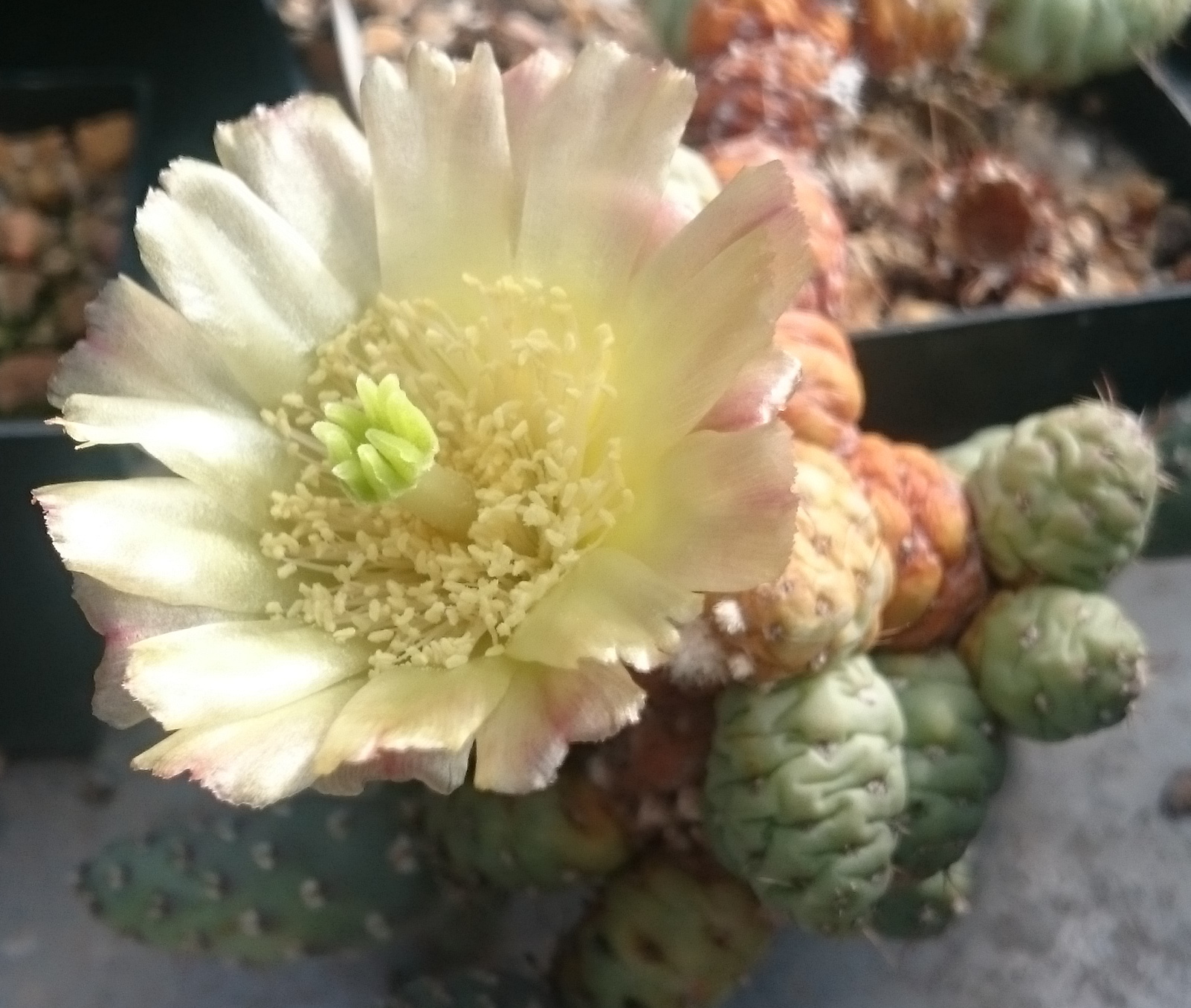 Tephrocactus mandragora in Blüte